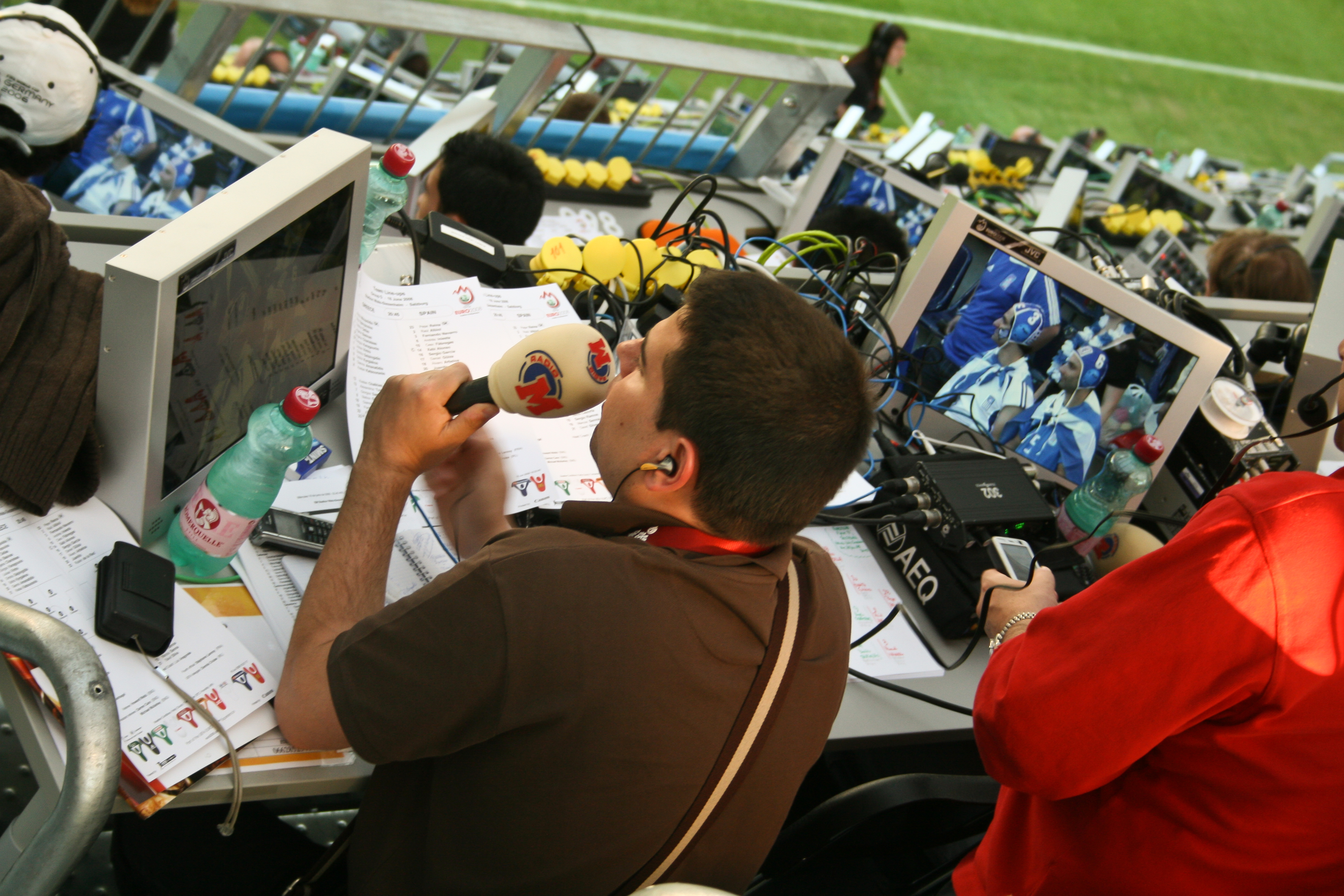 EM-Stadion Wals-Siezenheim in Salzburg during UEFA Euro 2008